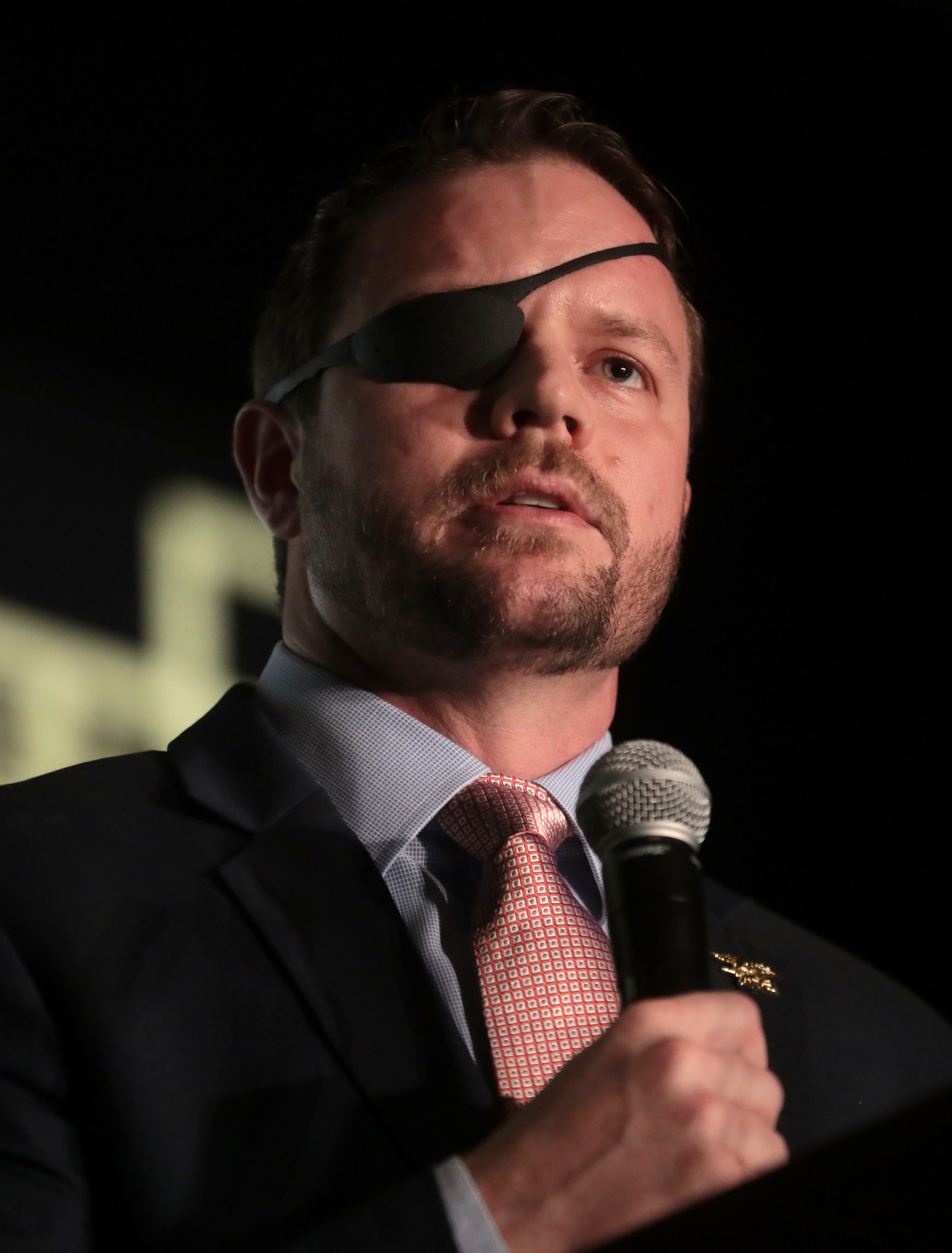 Dan Crenshaw speaking at an event in West Palm Beach, Florida.